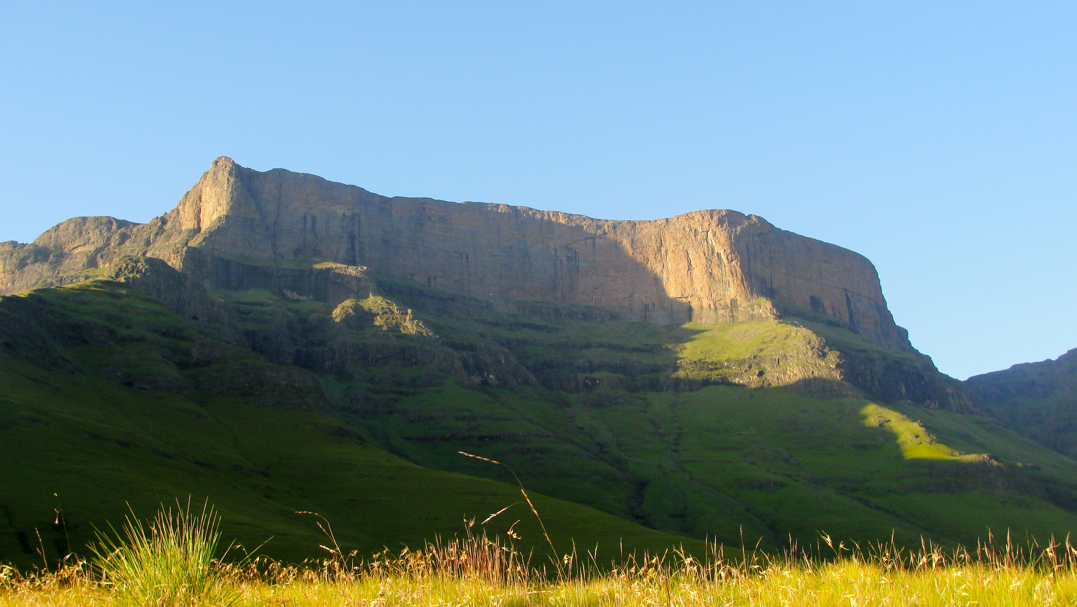 Giants Castle at sunrise from the contour path